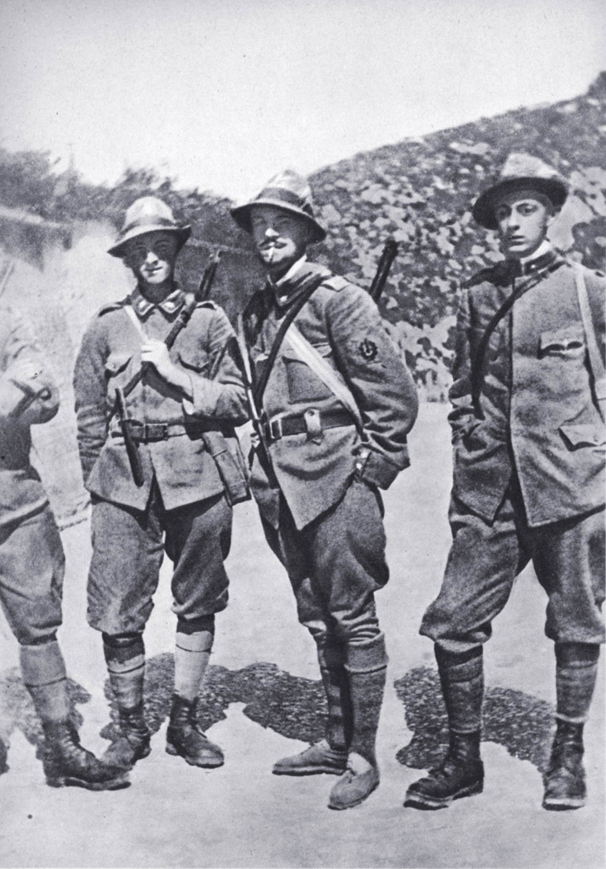 World War I. Lieutenant ITALO BALBO, Commander Arditi Company of the Battalion "Pieve di Cadore", 7th Alpini Regiment, portrait in Dosso Casina, returning from a patrol (to his right Pietro Tassotti).